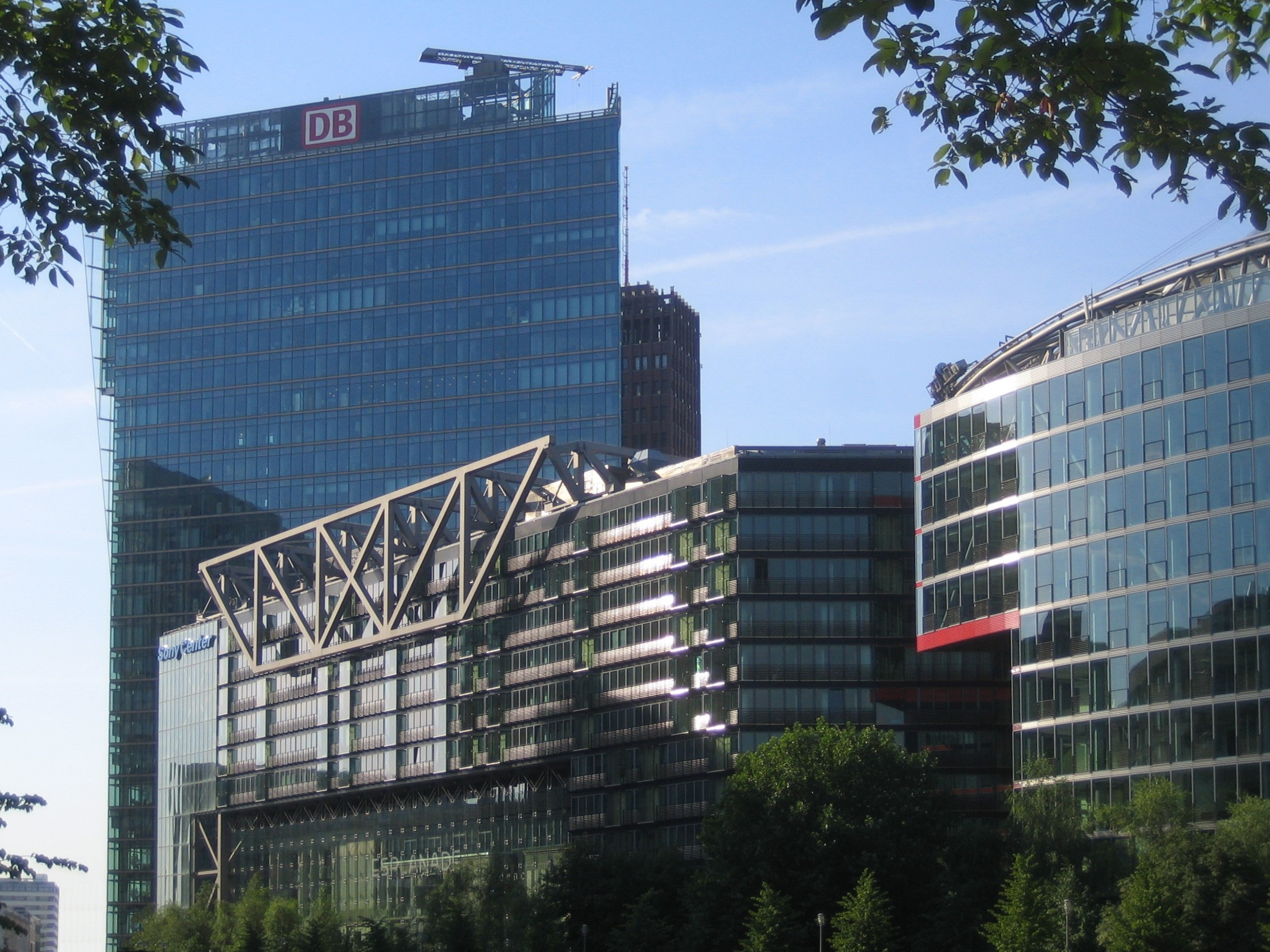 Berlin, Potsdamer Platz. The Sony-Center, view from north.